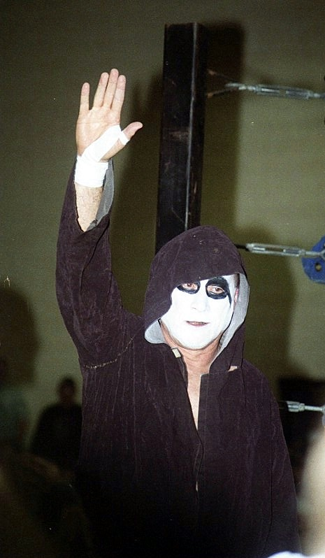 Pittsburgh wrestling legend Lord Zoltan on 3/28/09 from Franklin PA